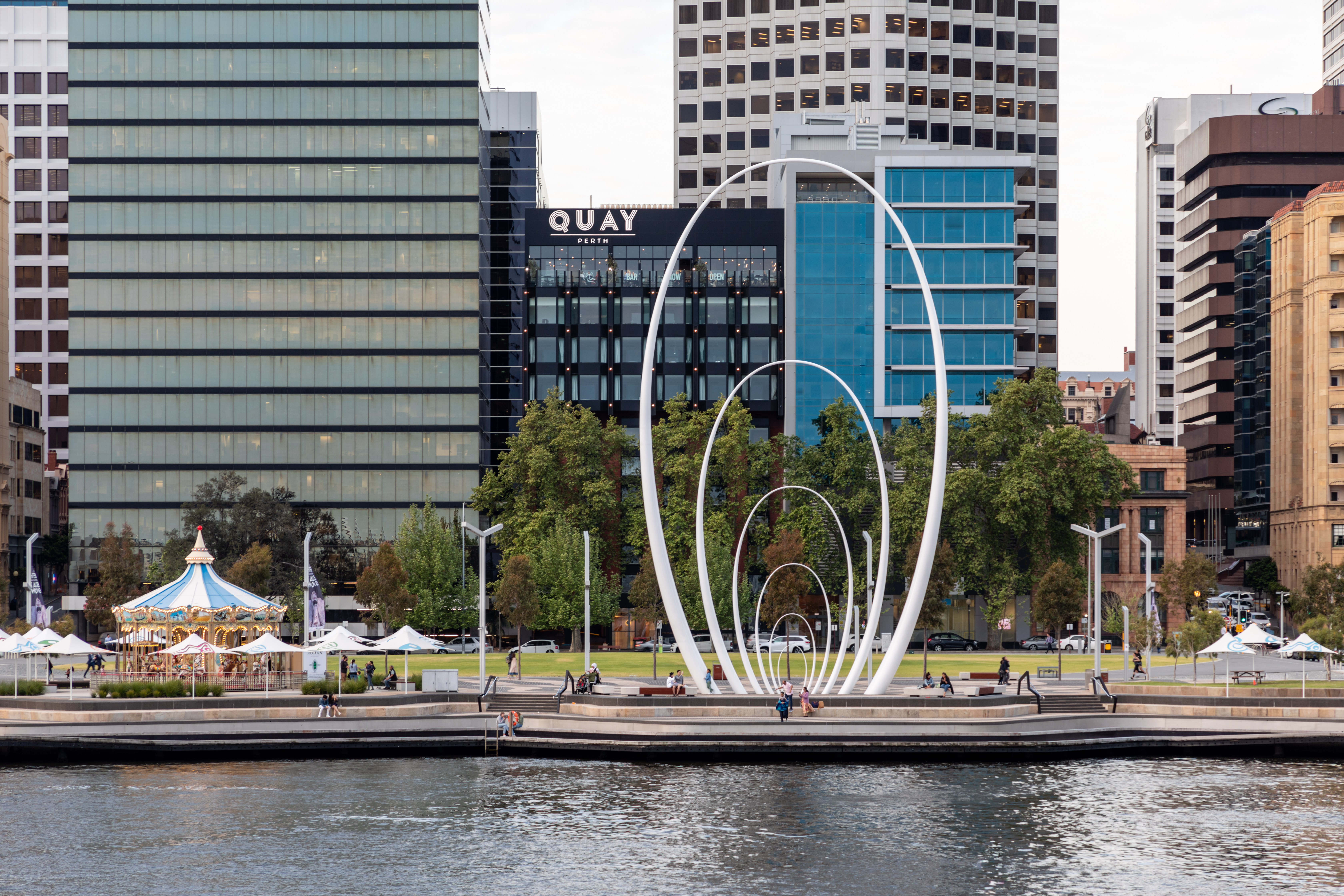 Sculpture “Spanda” (Christian de Vietri, 2016) at Elizabeth Quay, Perth, Western Australia, Australia Sculpture TitleSpandaArtistChristian de VietriDate2016